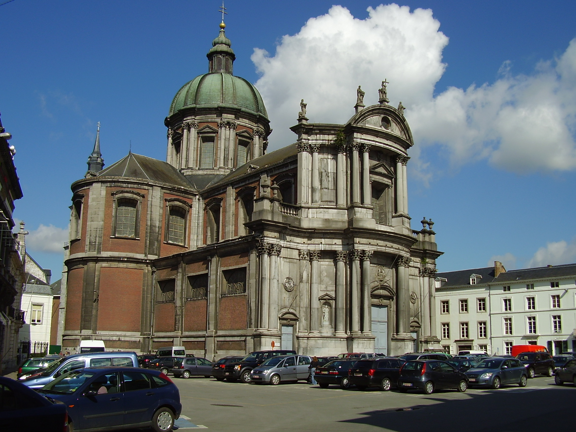 Namur (city), Belgium